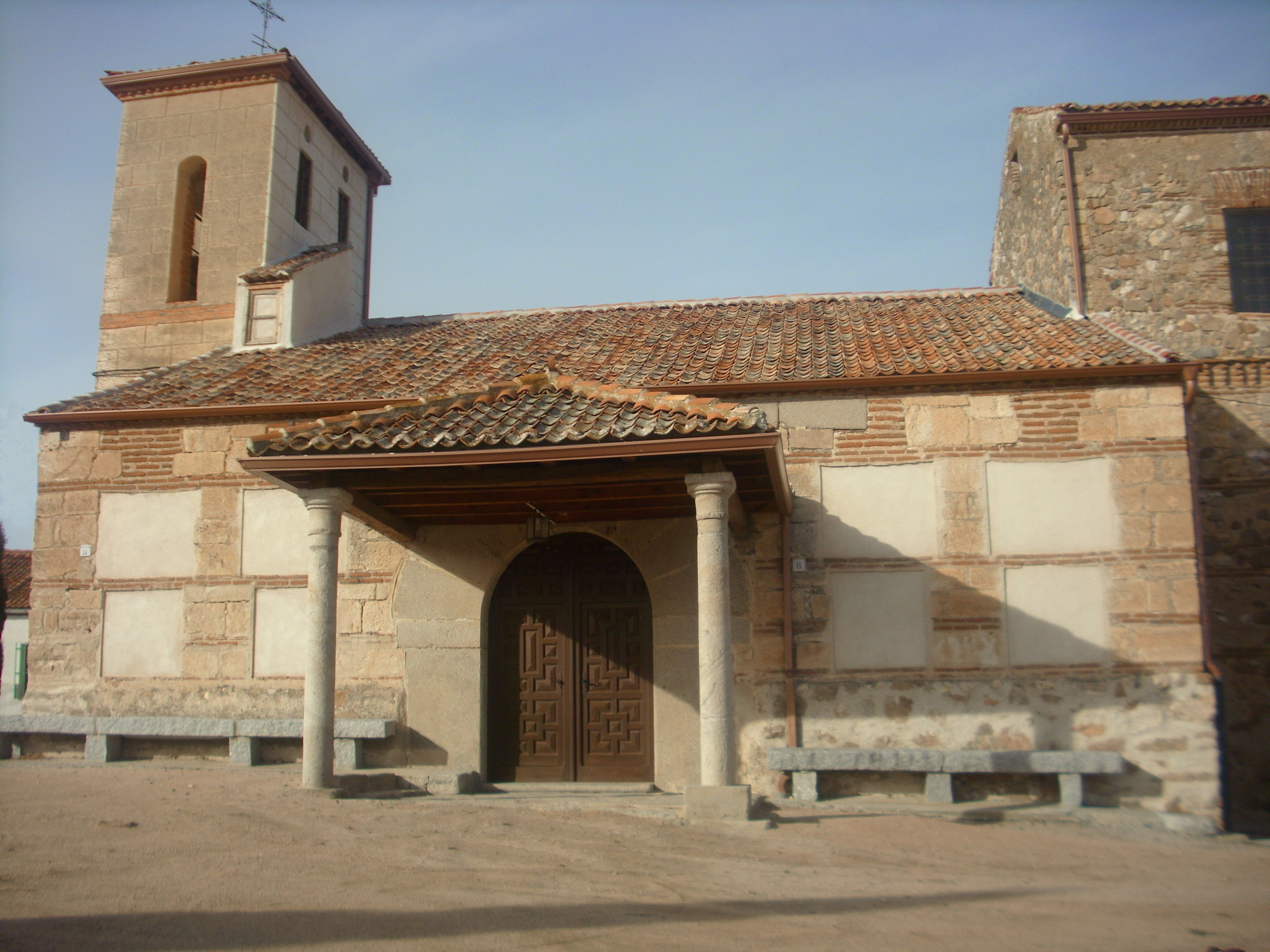 Monterrubio´s church (Segovia, Spain)